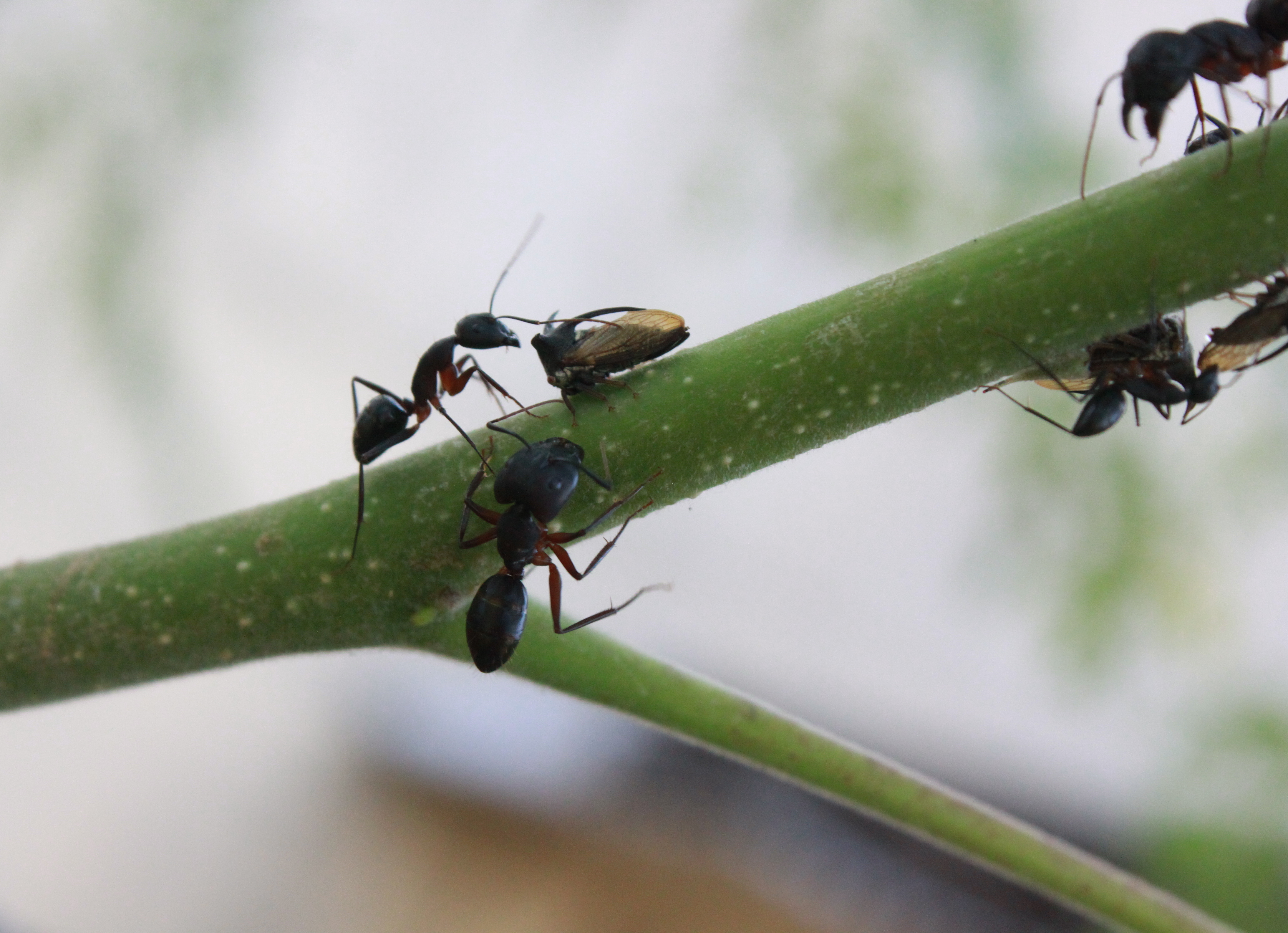 simply try to show the effort of ant